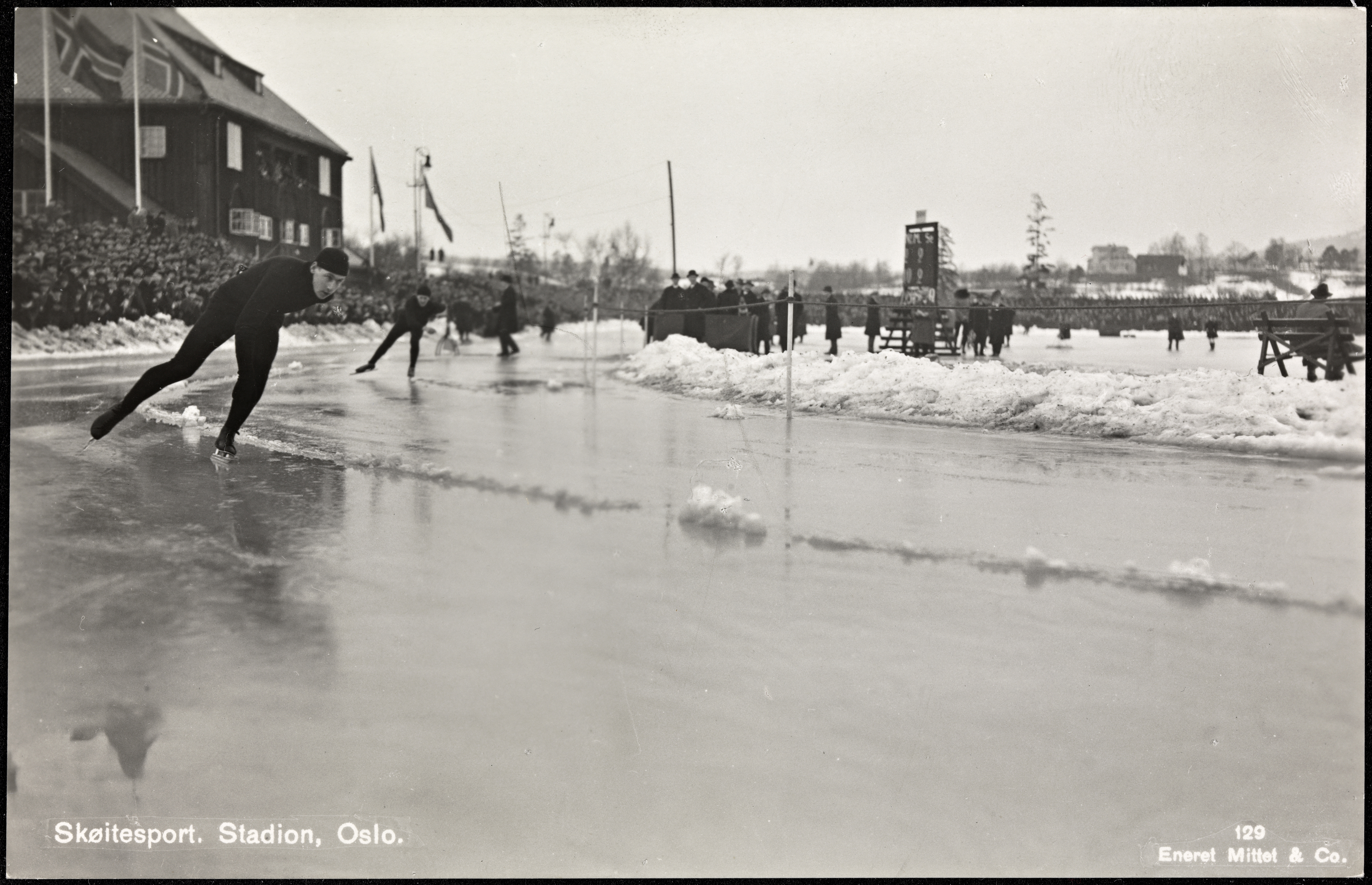 Beskrivelse / Description: Postkort / postcard. Dato / Date: ca. 1930 Sted / Place: Frogner stadion, Oslo Fotograf / Photographer: ukjent / unknown Utgiver / Publisher: Mittet & Co. Digital kopi av original / Digital copy of original: s/h postkort, sølvgelatin Eier / Owner Institution: Nasjonalbiblioteket / National Library of Norway Lenke / Link: Bildesignatur / Image Number: blds_06562